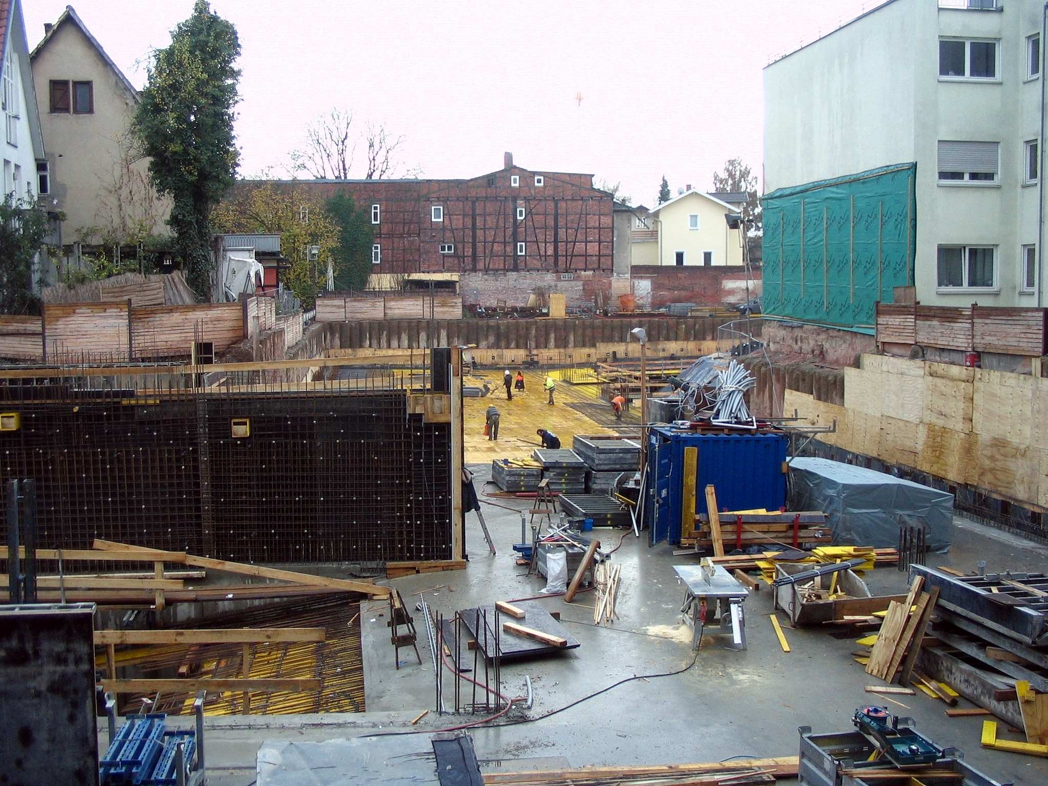 Coburg construction site in the Ketschenvorstadt in November 2013